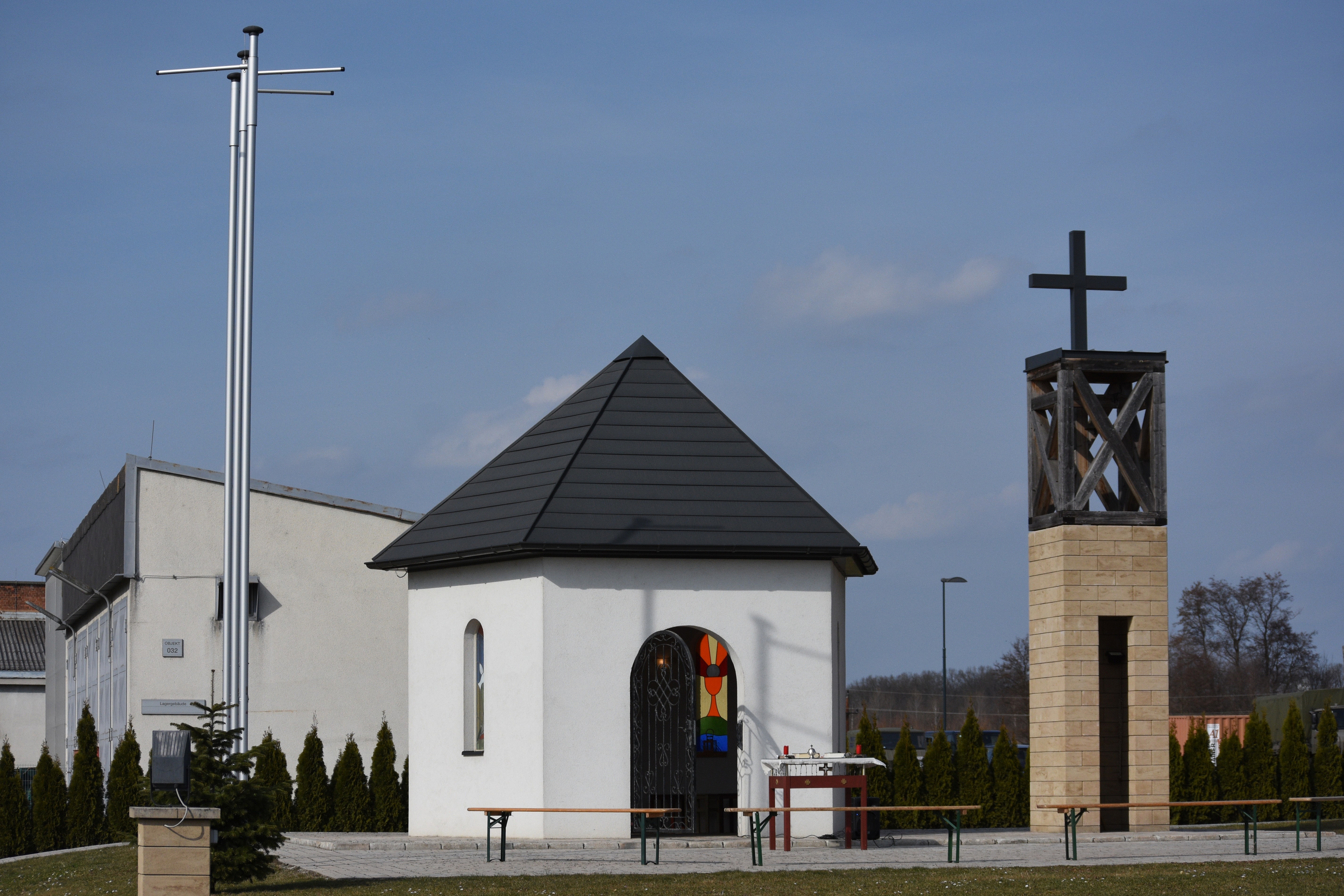 Maria-Victoria-Kirche Chapel Güssing